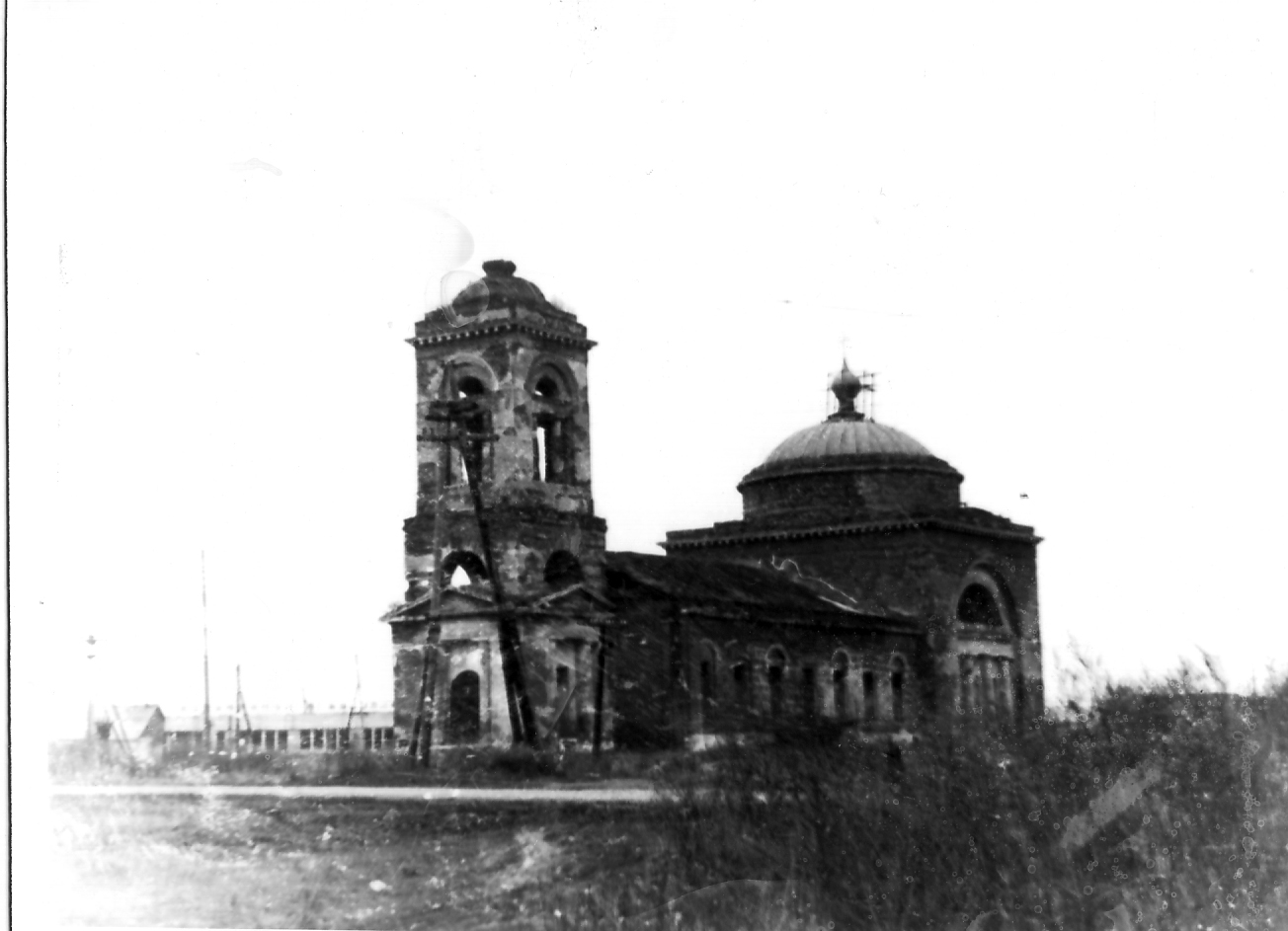 Church of Transfiguration (Kanishevo) in 1990